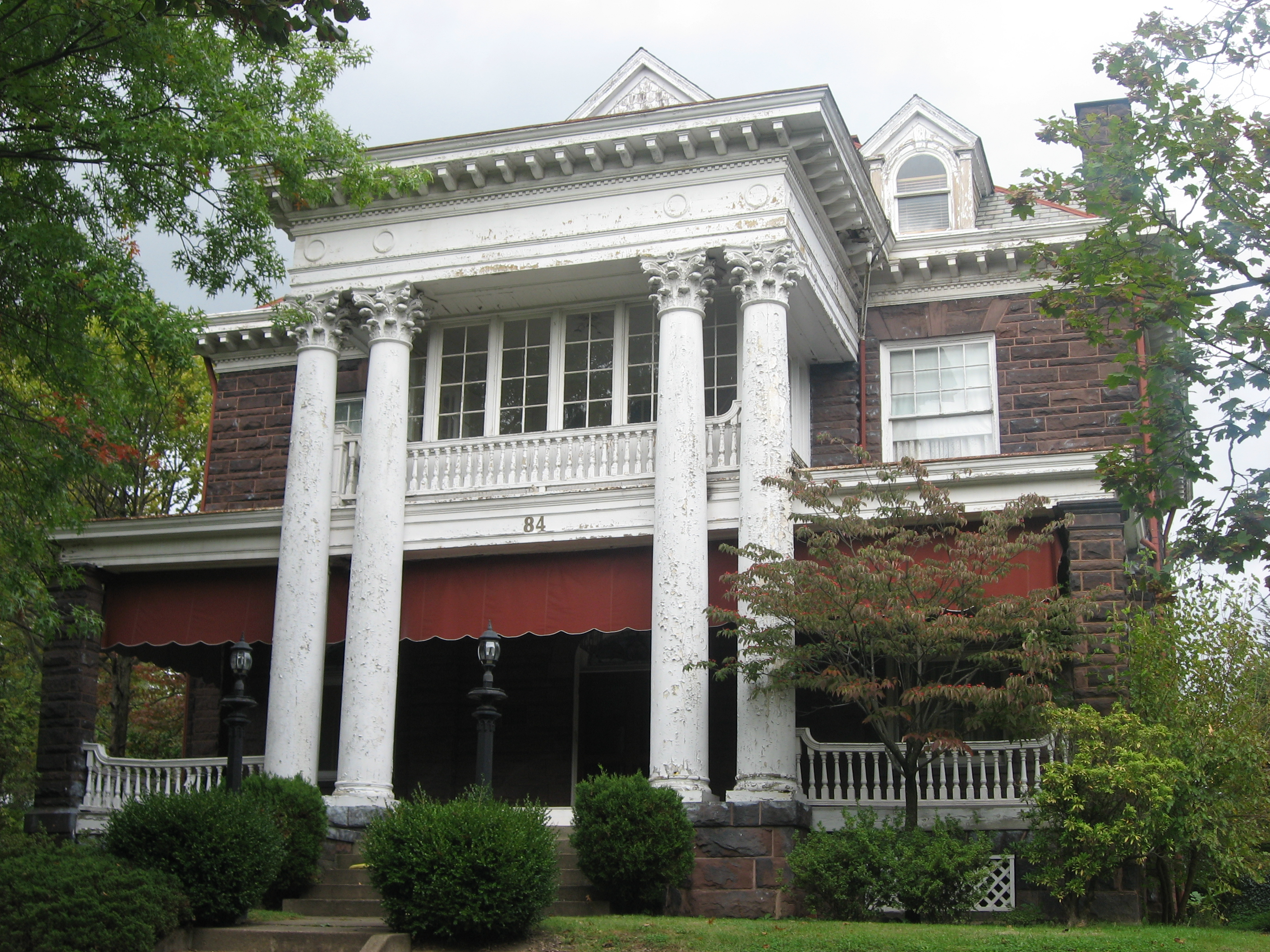 Front of the John P. Conn House, located at 84 Ben Lomond Street in Uniontown, Pennsylvania, United States. Built in 1906, it is listed on the National Register of Historic Places.